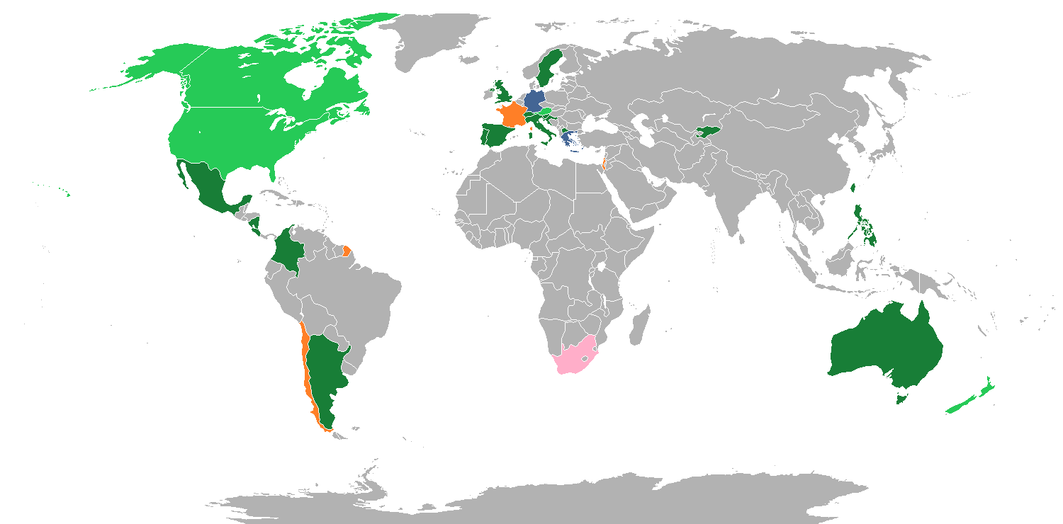 Countries which recognize Scientology as a Religion Countries where Scientology is tax-exempt Countries where Scientology is allowed to perform marriages Countries where Scientology is considered a cult. Countries where the situation is unclear.